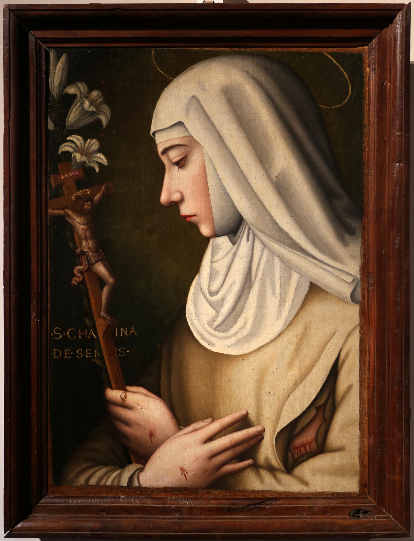 Plautilla Nelli (2017 exhibition at Uffizi Gallery)